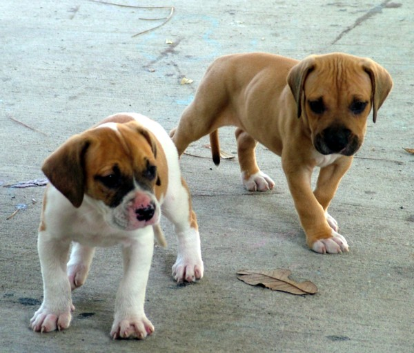 Two American Bulldog puppies.